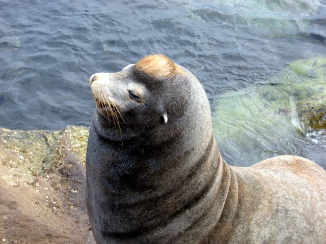 Taken by Rosemary Monday morning, this was the view in Monterrey Bay